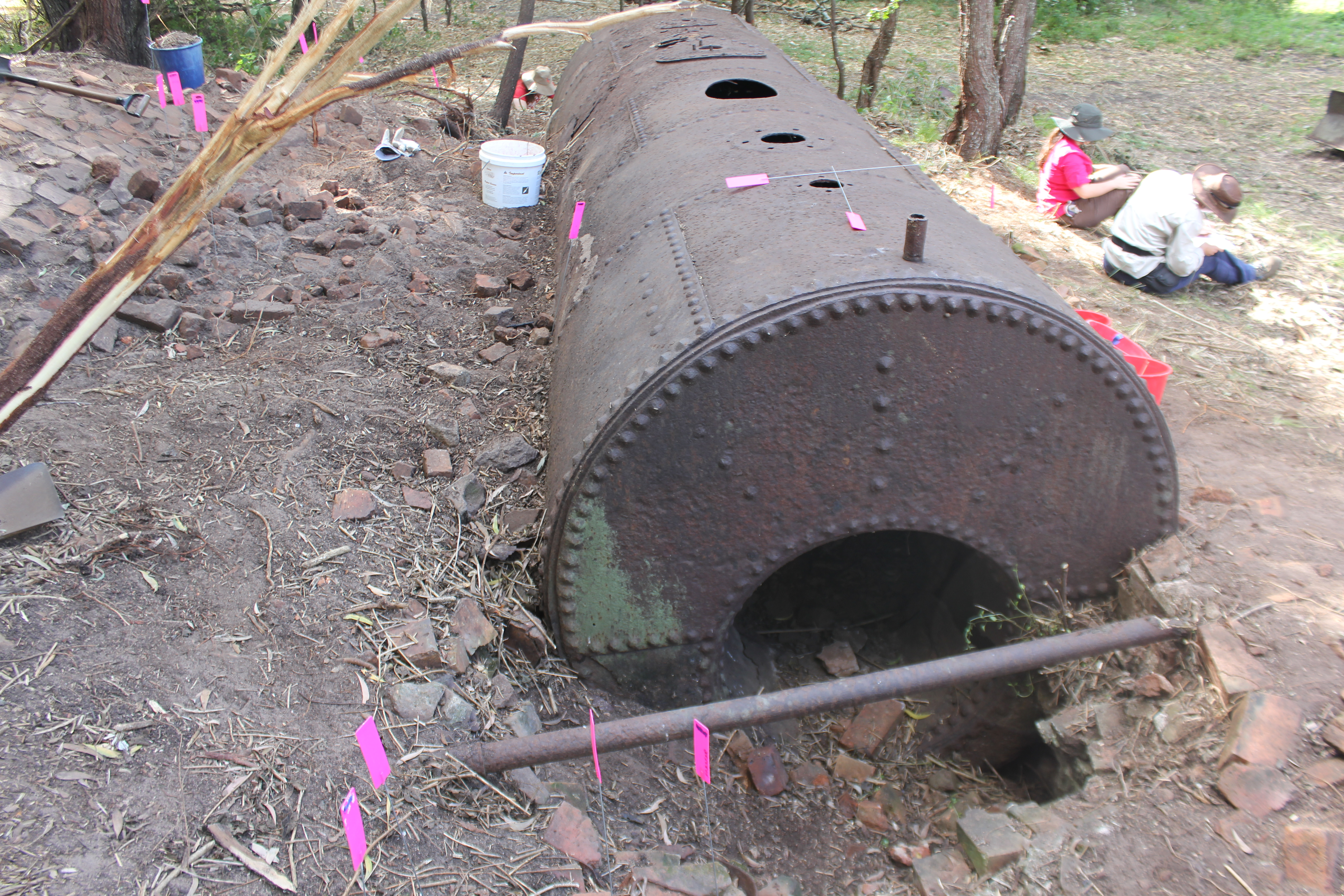 Remains of the Cornish boiler at the sugar mill